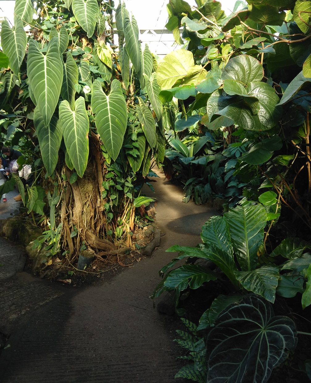 Lowlands Path at TLR, include Philodendron melanochrysum